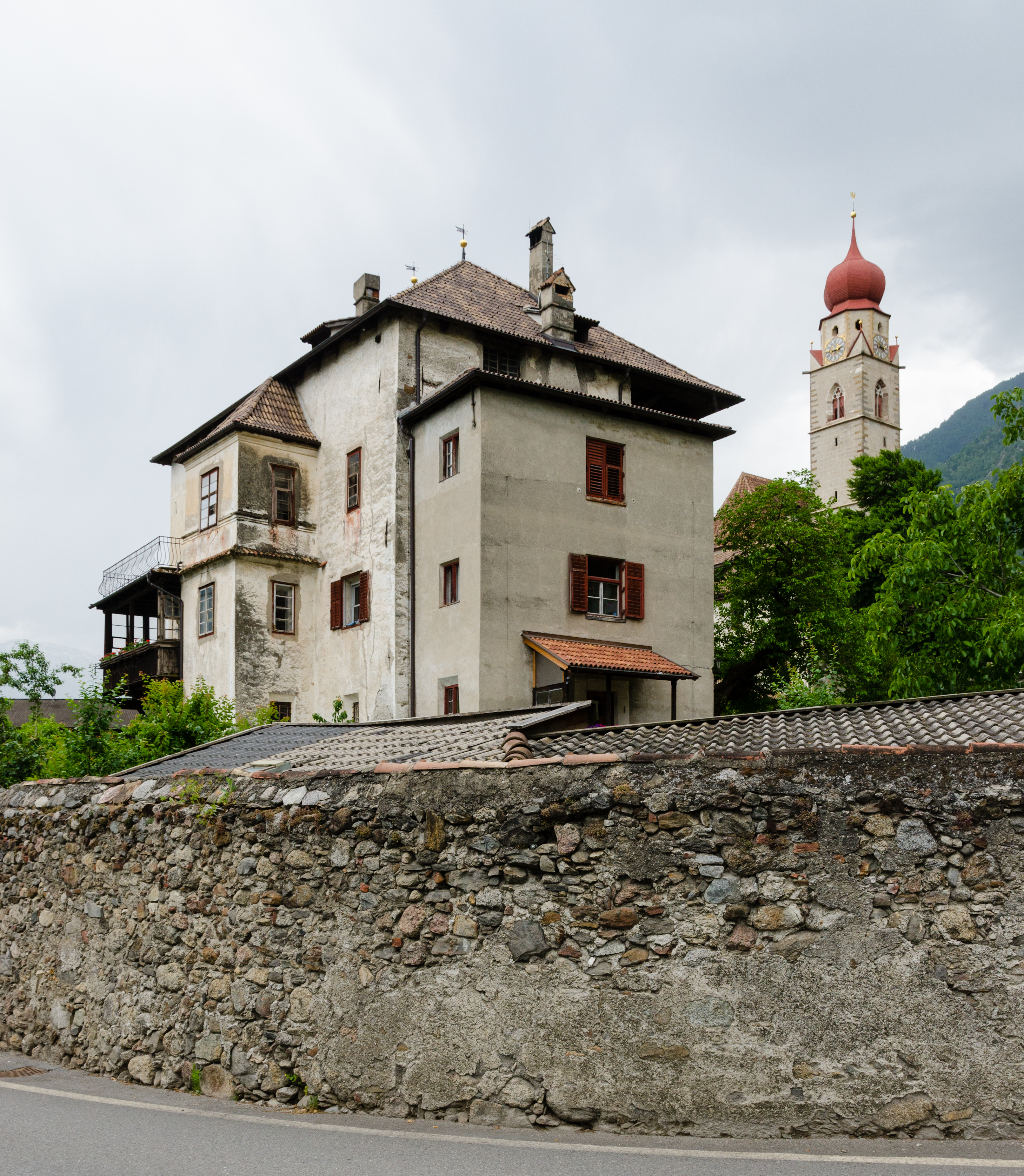 Mansion Gaudententurm, in the background St. Peter and Paul, Partschins, South Tyrol